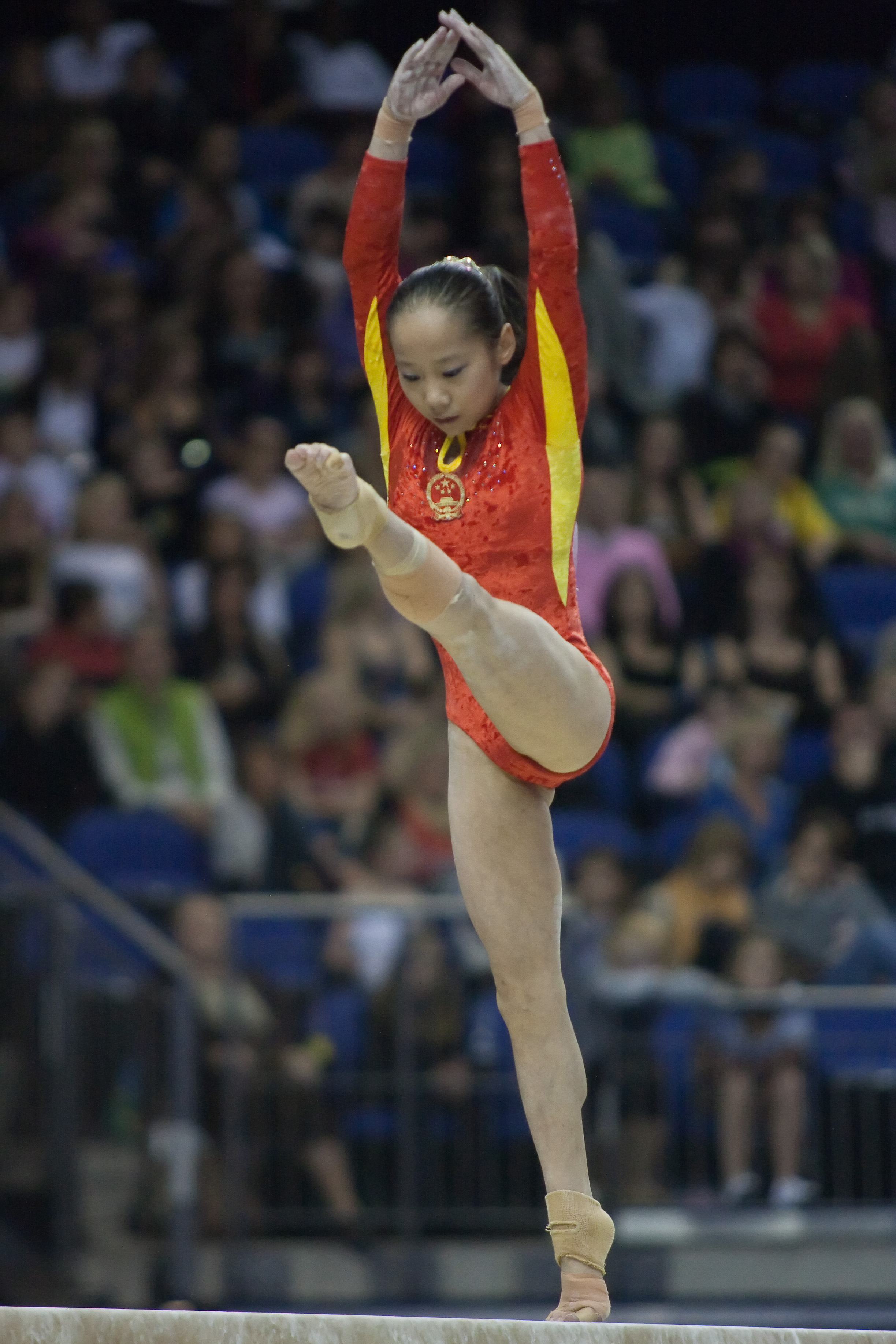 Deng Linlin at 41st Artistic Gymnastics World Championship 2009